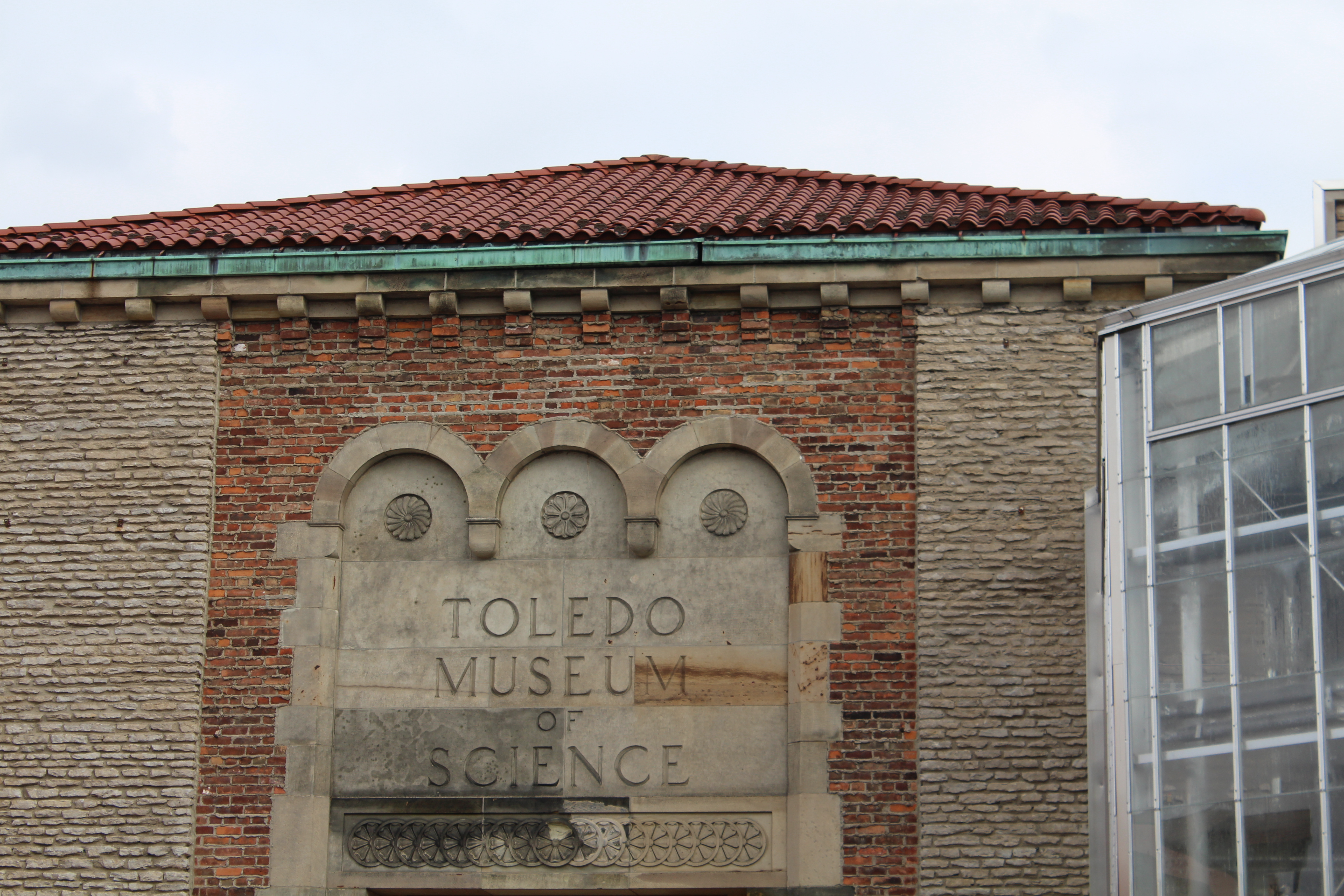 The Original part of the Museum of Science